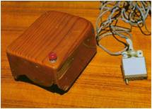 Prvá myš